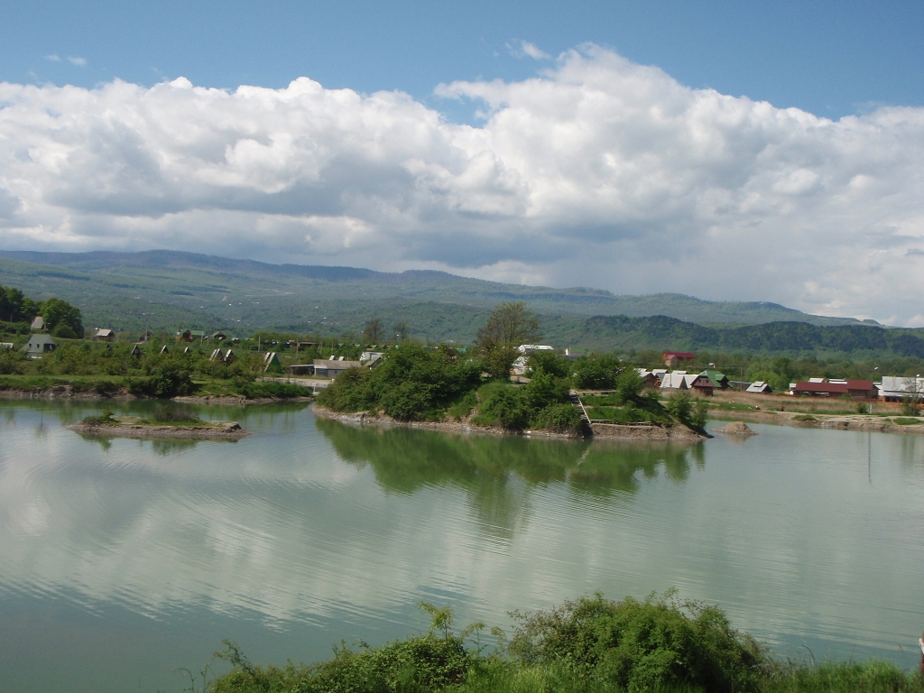 Solotvino country, Zakarpattya region, Ukraine